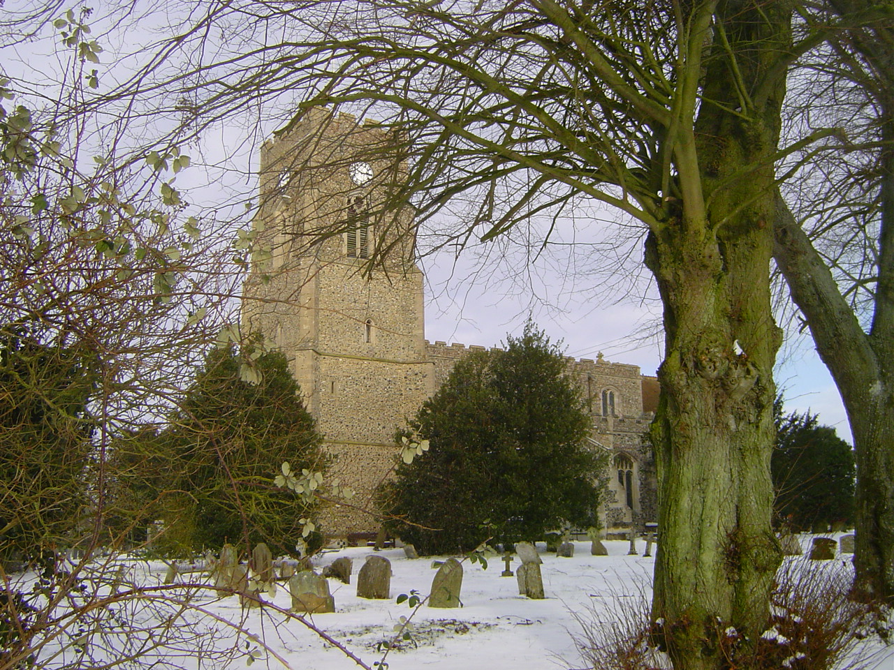 All Saints Church, Lawshall, Suffolk - viewed from The Street in winter.